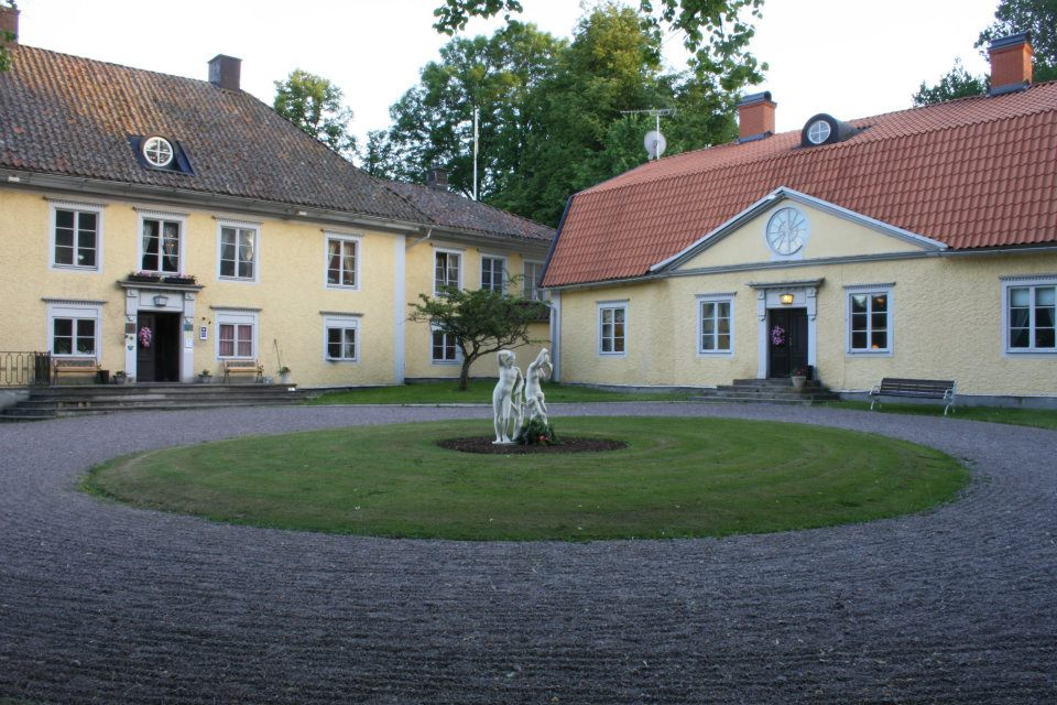 Aspa Manor welcome